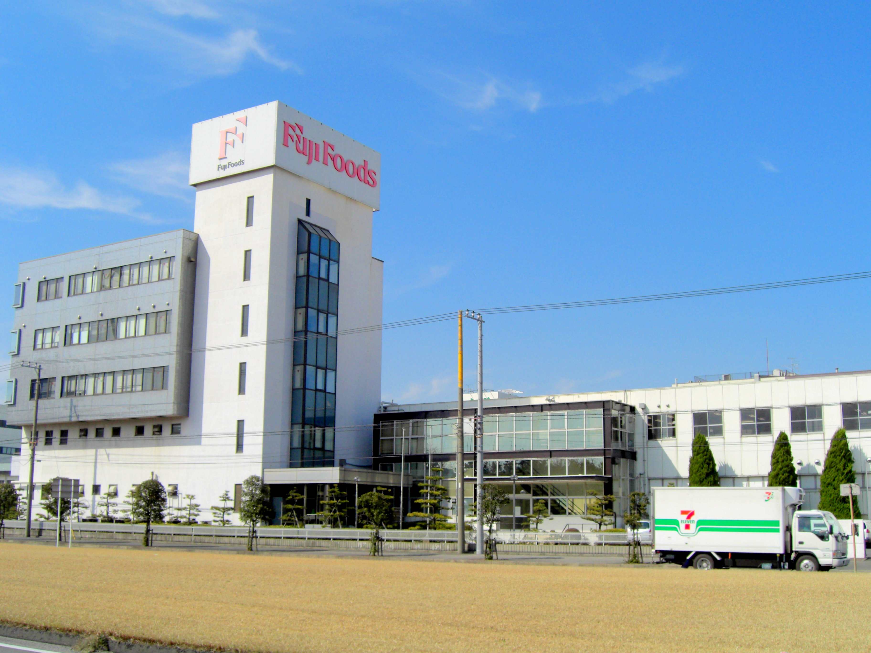 Fuji Foods head office with 7-Eleven delivery car